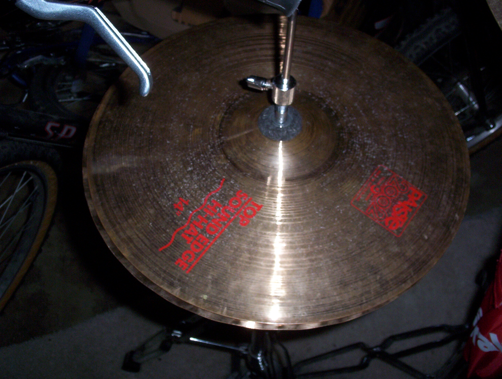 A Paiste 2002 Sound Edge Hihat